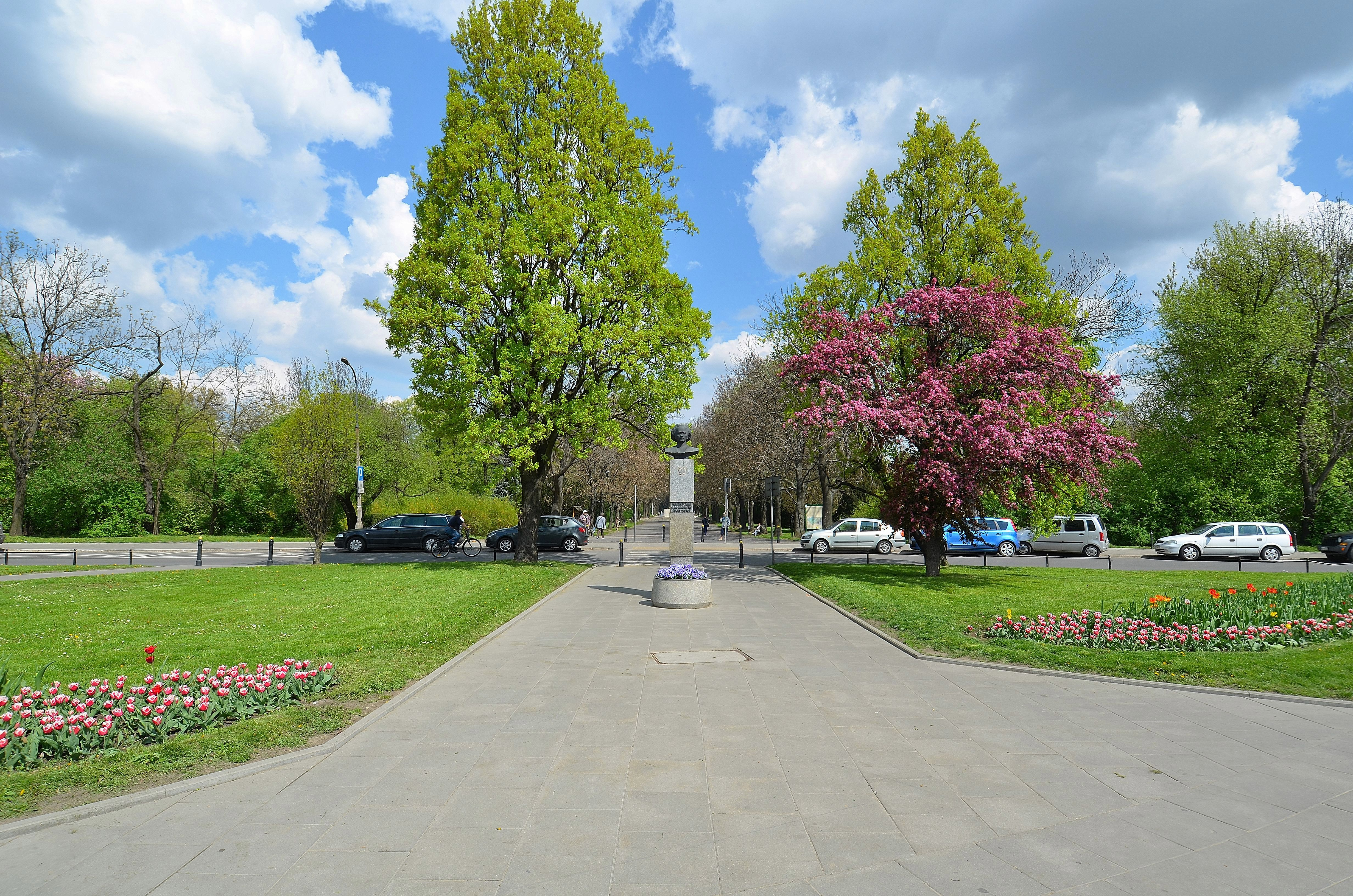 Ignacy Jan Paderewski Monument in Skaryszewski Park in Warsaw